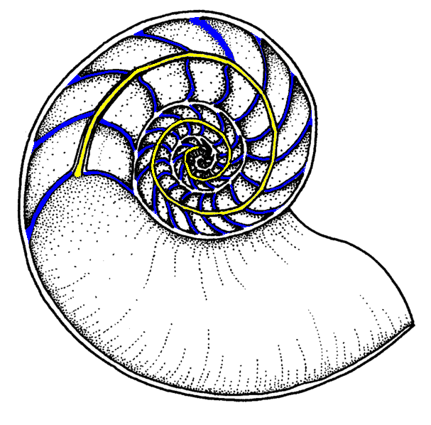 Septa & siphuncle of Nautiloid shell. Blue = septa, yellow = siphuncle. colour-coded version of source